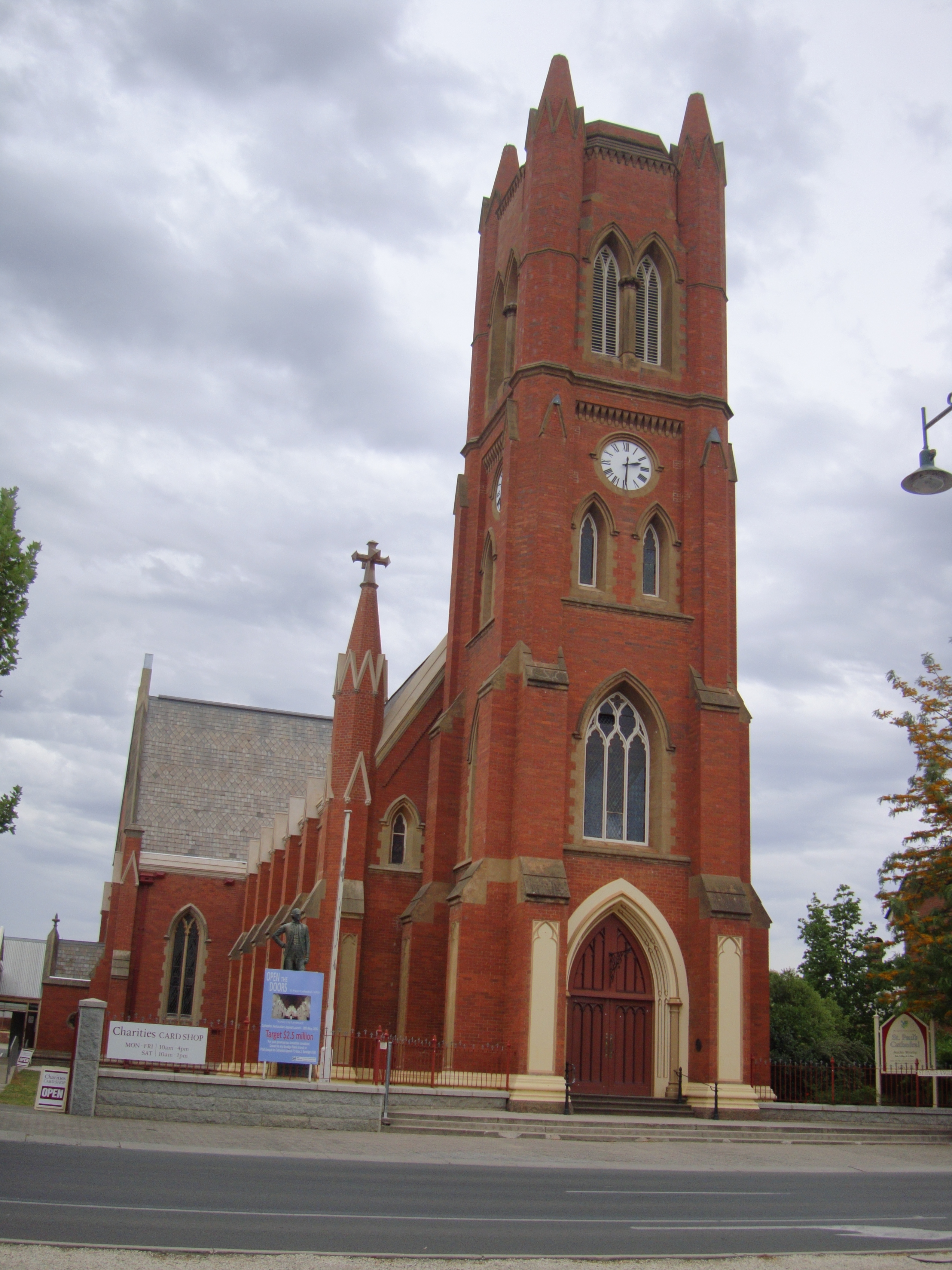 Photograph of St Paul's Cathedral, Bendigo, Victoria, Australia